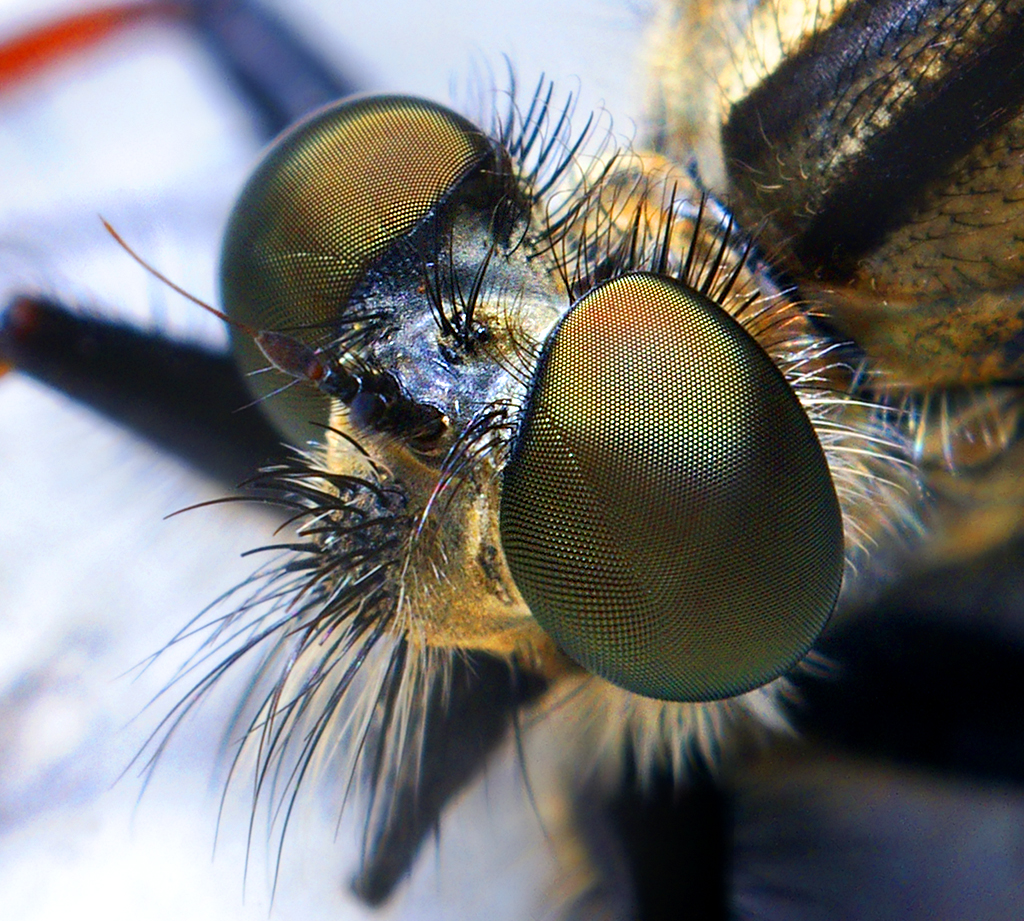 A large Efferia aestuans taken with a Pentax *ist DL